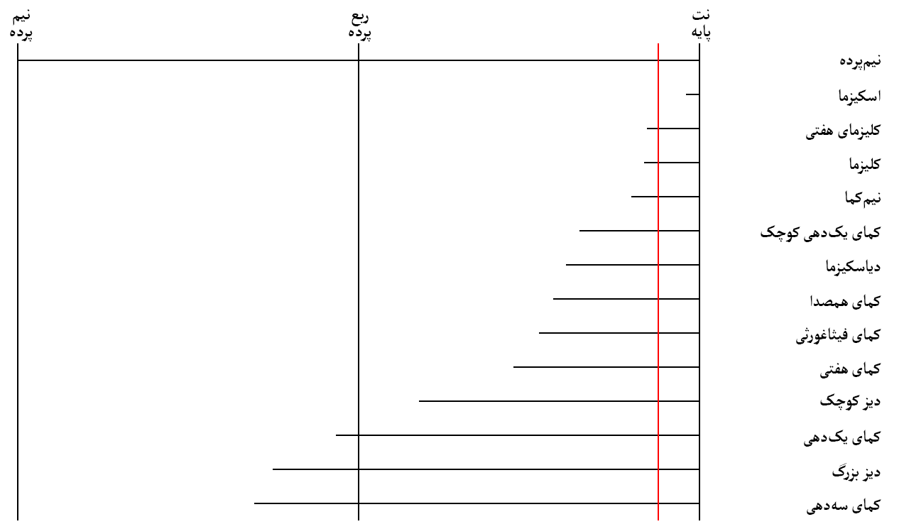 Comparison of the size of different commas. Equal tempered semitone added for comparison. Just-noticeable difference in red. Based on File:Comma size comparison.png, translated to Persian.